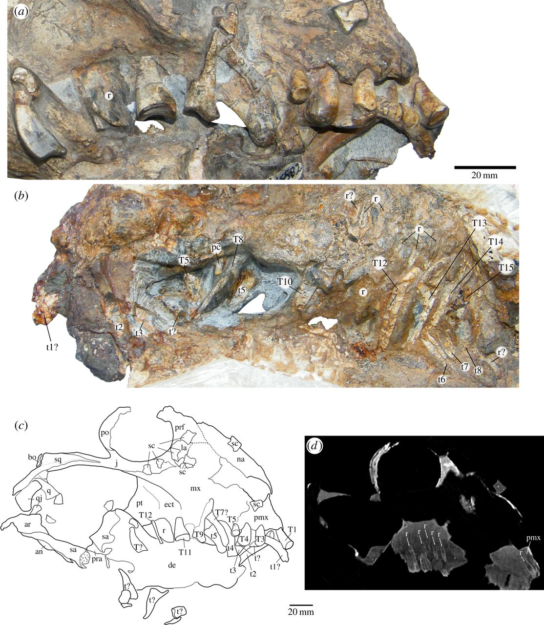 Dentition of A. africanus. (a) Lateral view; (b) medial view; (c) drawing of the cranium; (d) CT scan of the cranium showing replacement teeth (arrows). an, angular; ar, articular; bo, basioccipital; de, dentary; ect, ectopterygoid; j, jugal; la, lacrimal; mx, maxilla; n, nasal; pc, precaniniform; pmx, premaxilla; po, postorbital; pra, prearticular; prf, prefrontal; q, quadrate; qj, quadratojugal; r, replacement tooth; sa, surangular; sc, sclerotic ossicle; T, upper tooth; t, lower tooth.